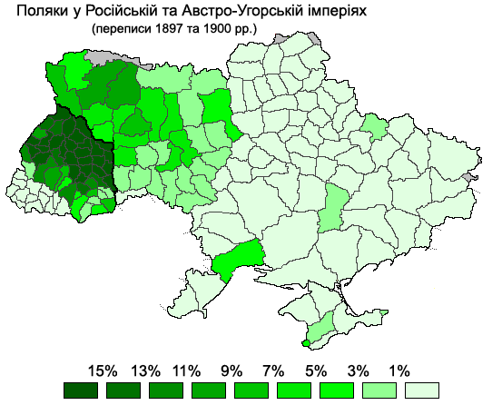 Poles in ukrainian parts of Russian and Austro-Hungarian empires, 1897 and 1900 censuses